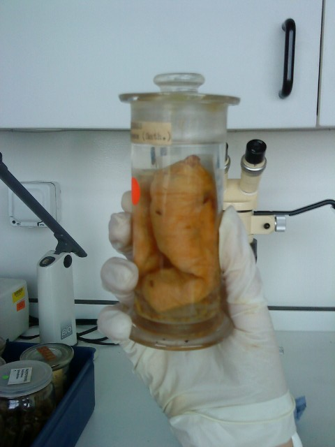 Preserved specimen of termite queen, showing extended abdomen. The rest of its body is the same size as that of a worker's.